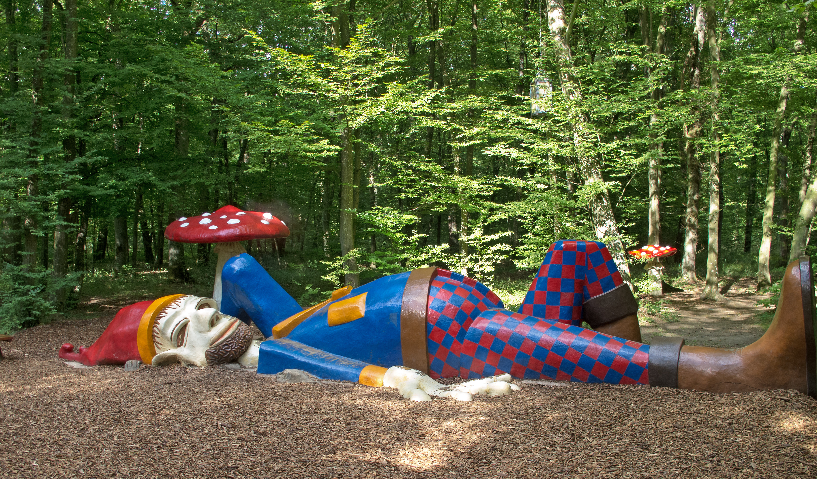 Fairy tale figure in the amusement park in Bettembourg